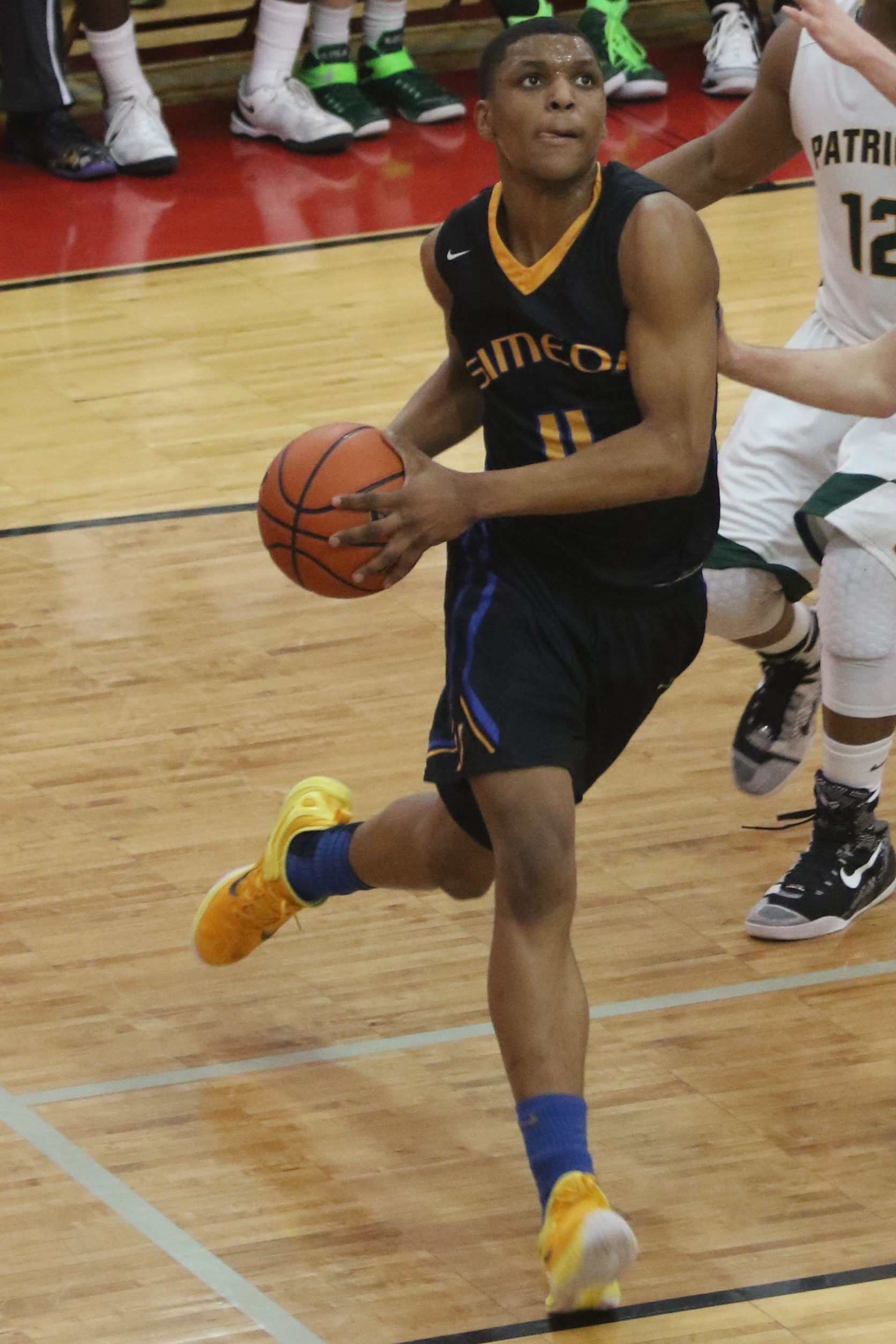 Zach Norvell Jr. drives the baseline